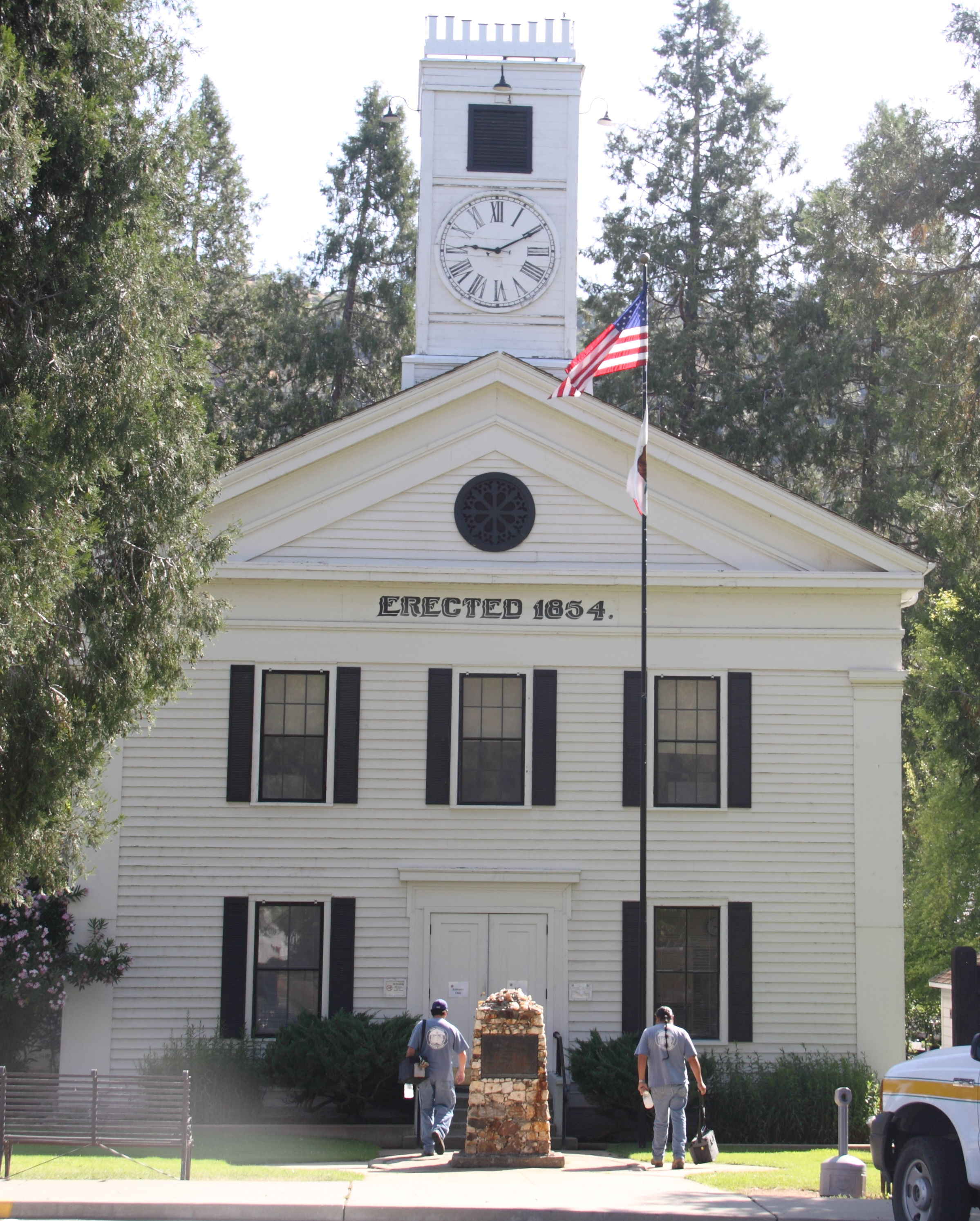 Photo of the Mariposa County Courthouse.